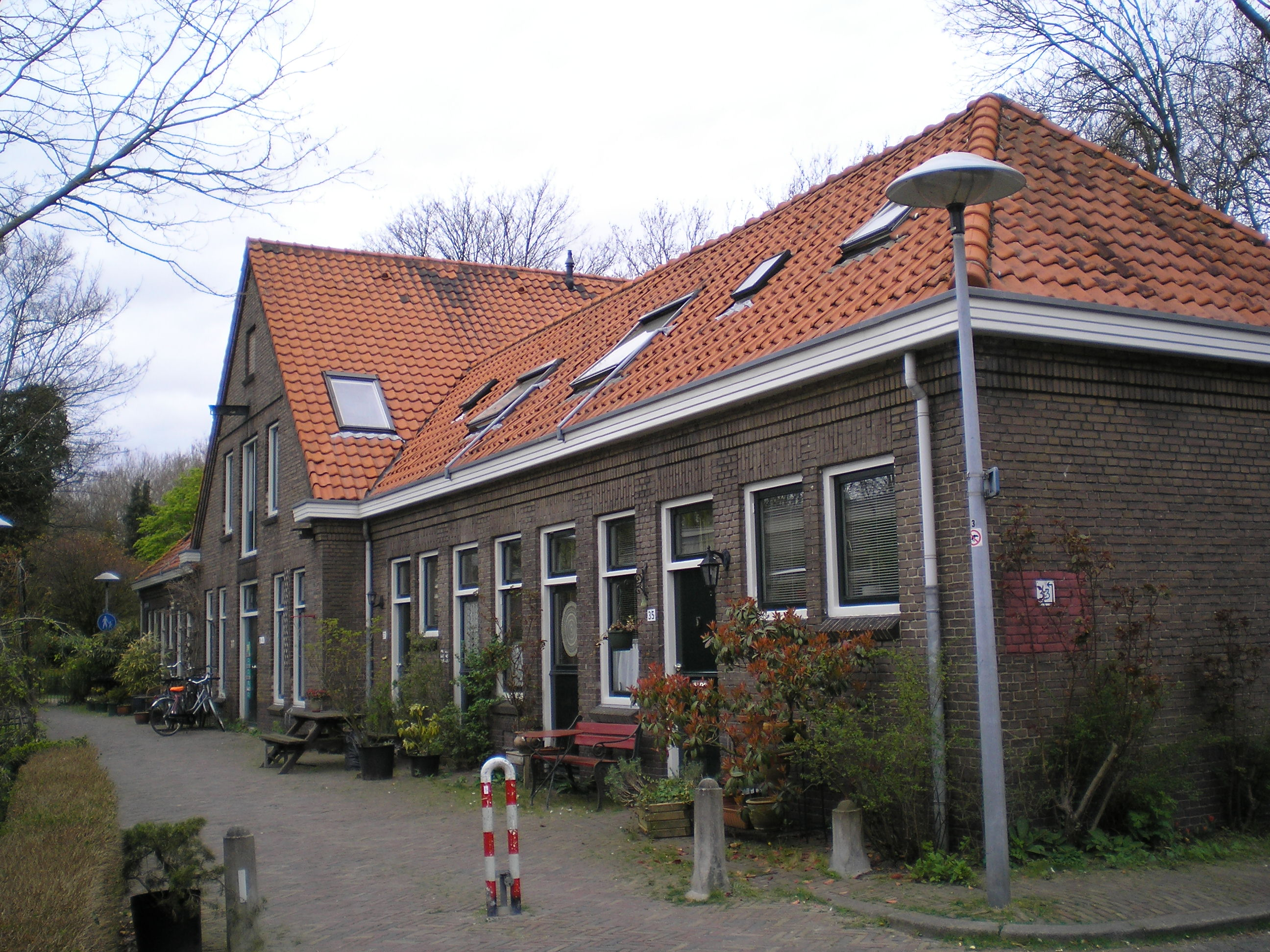 Hoefsmederijstraat 35 in Utrecht in the Netherlands